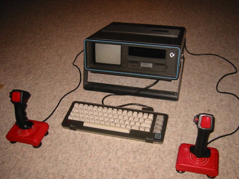 Commodore C64 SX-64 with 2 joysticks